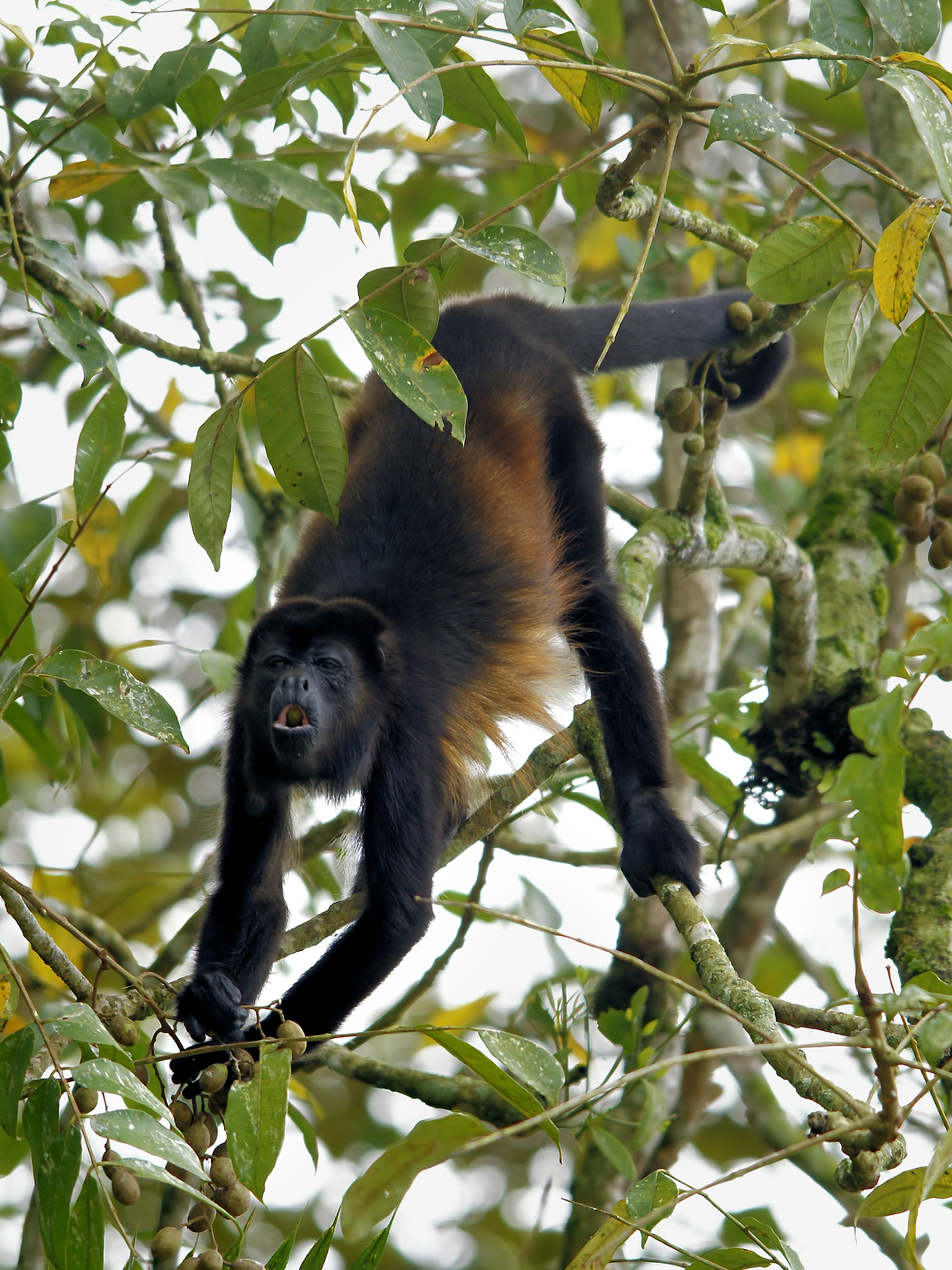 Mantled Howler Monkey at Caño Negro, Costa Rica.